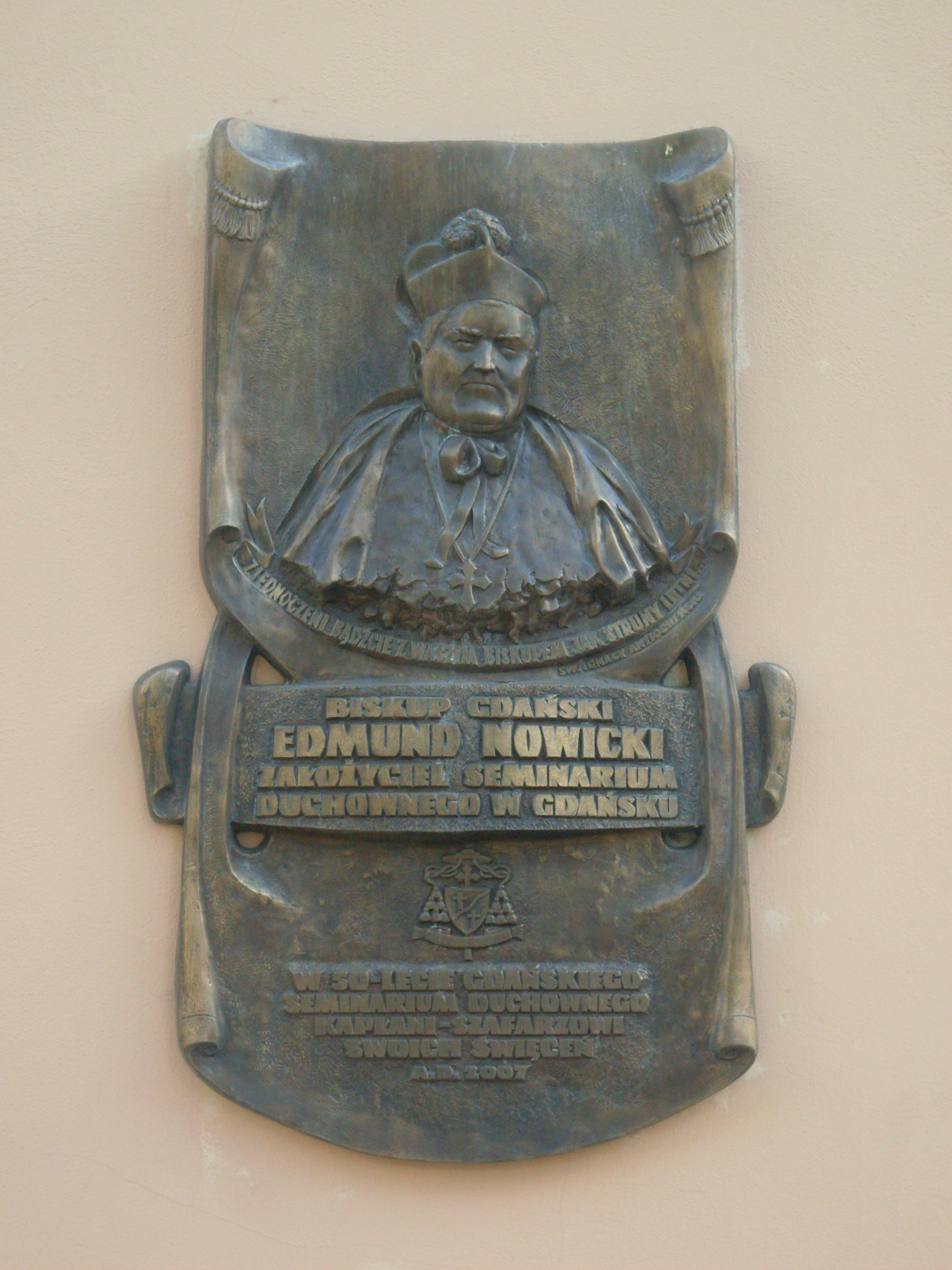 Plaque for bishop Edmund Nowicki at Gdańsk Theological Seminary. He was a founder of this academy.